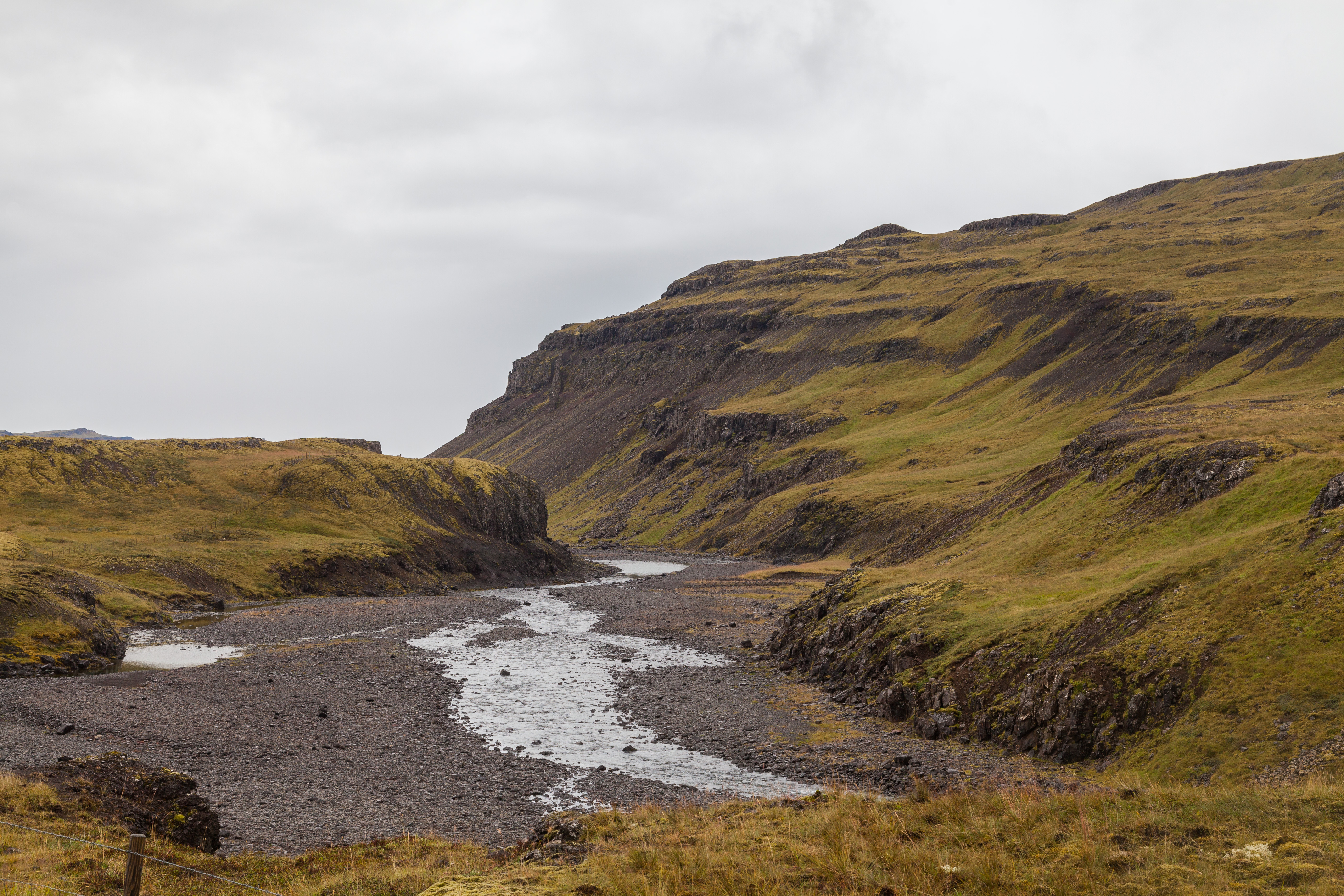 Landscape in Borgarbyggð, Vesturland, Iceland